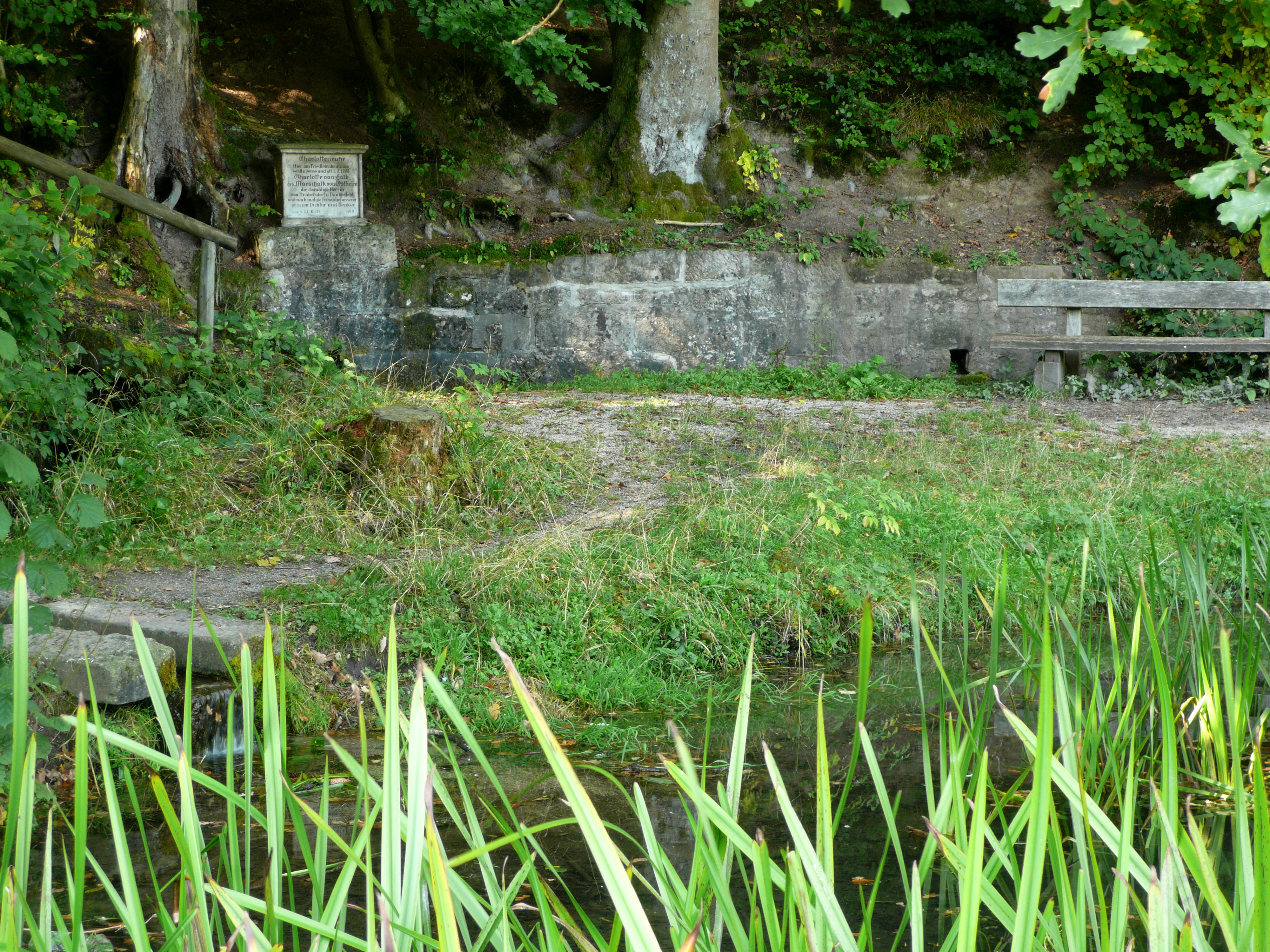 Place in Steigerwald named after the poetress Charlotte von Kalb